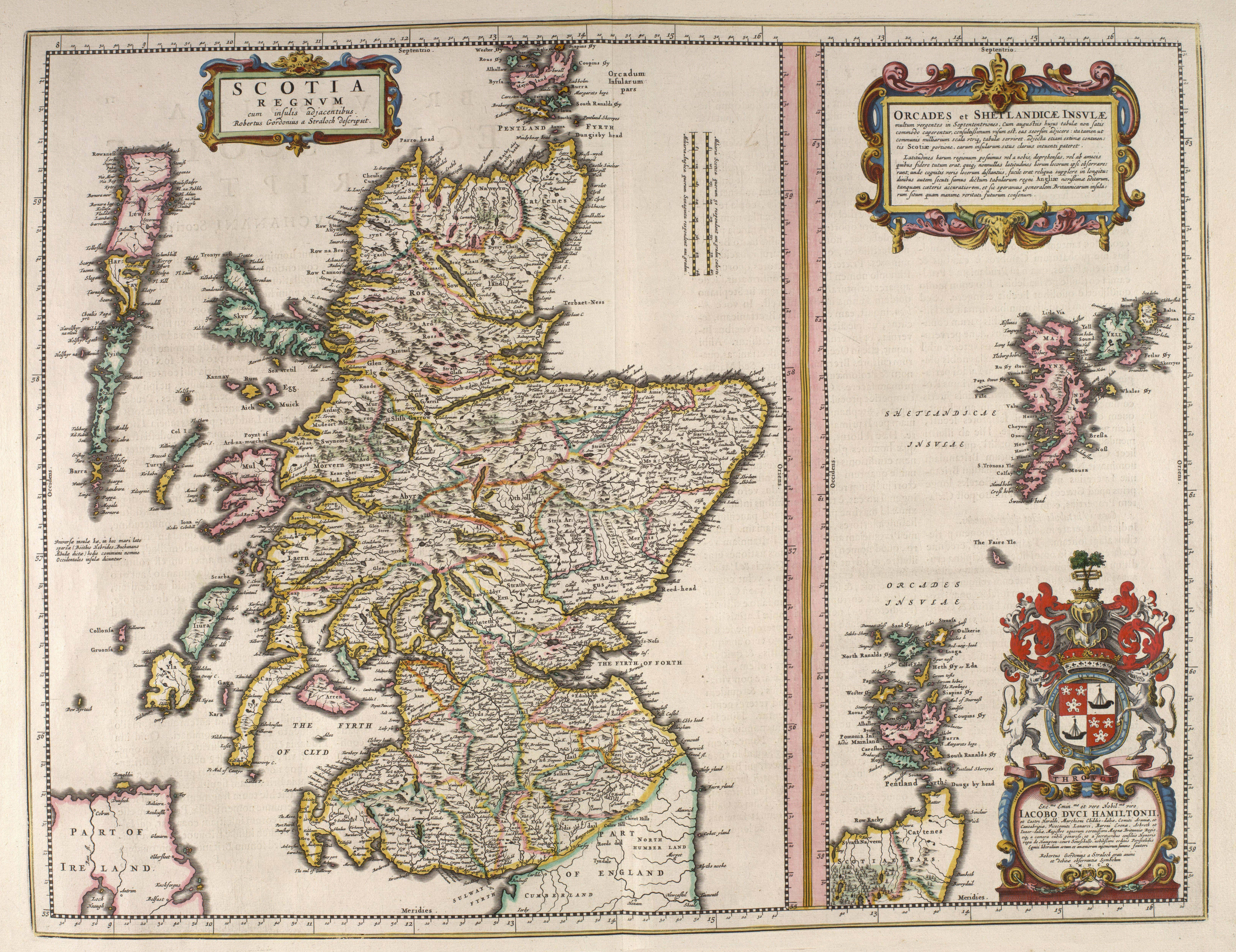 SCOTIA REGNUM - Kingdom of Scotland